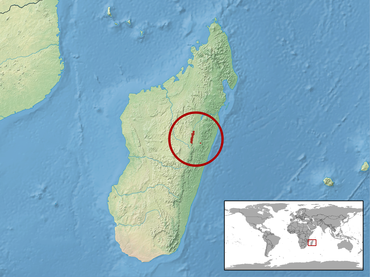 geographic distribution of Brookesia ramanantsoai (Native: Madagascar)